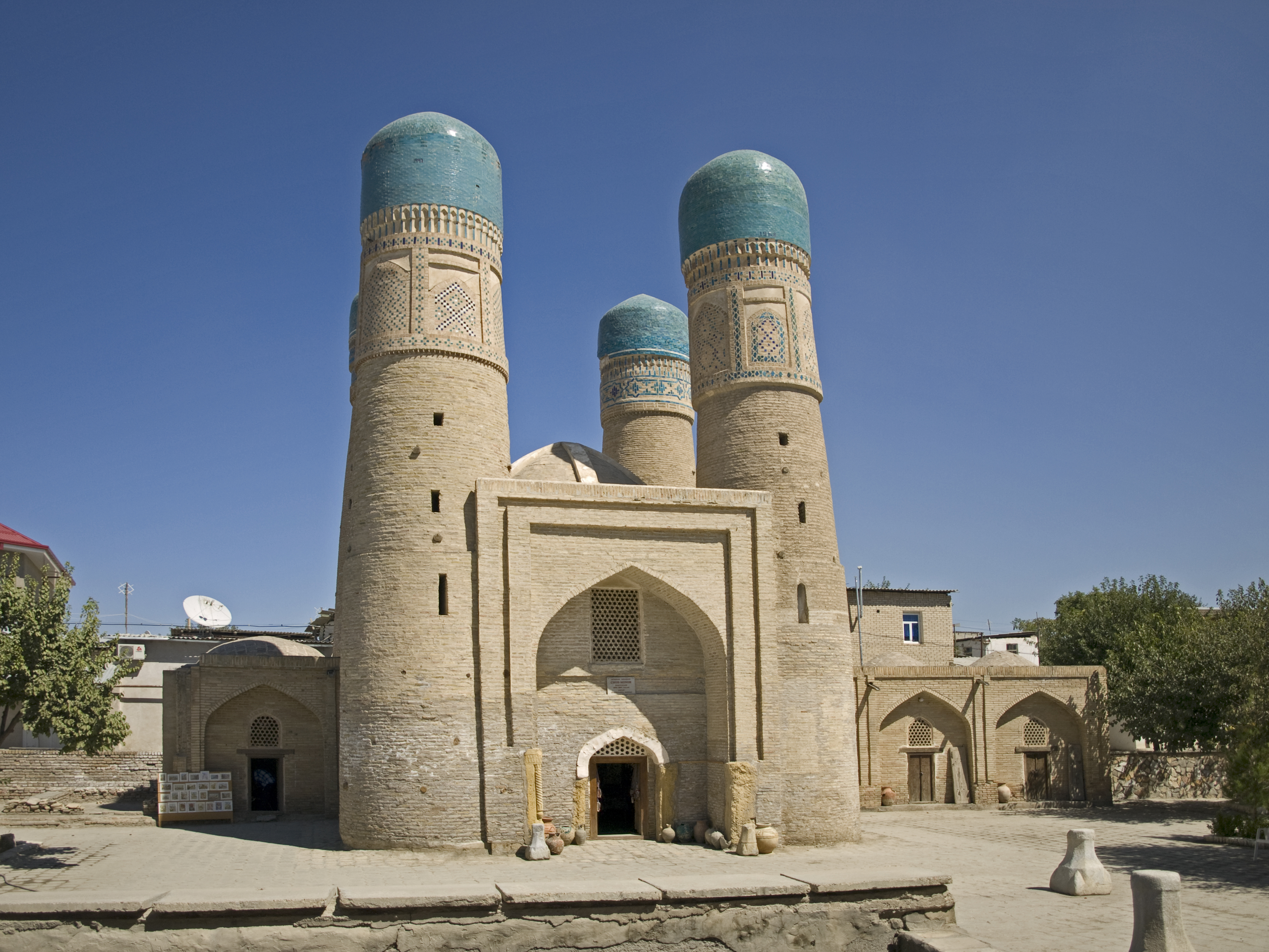 Chor minor from south, Bukhara